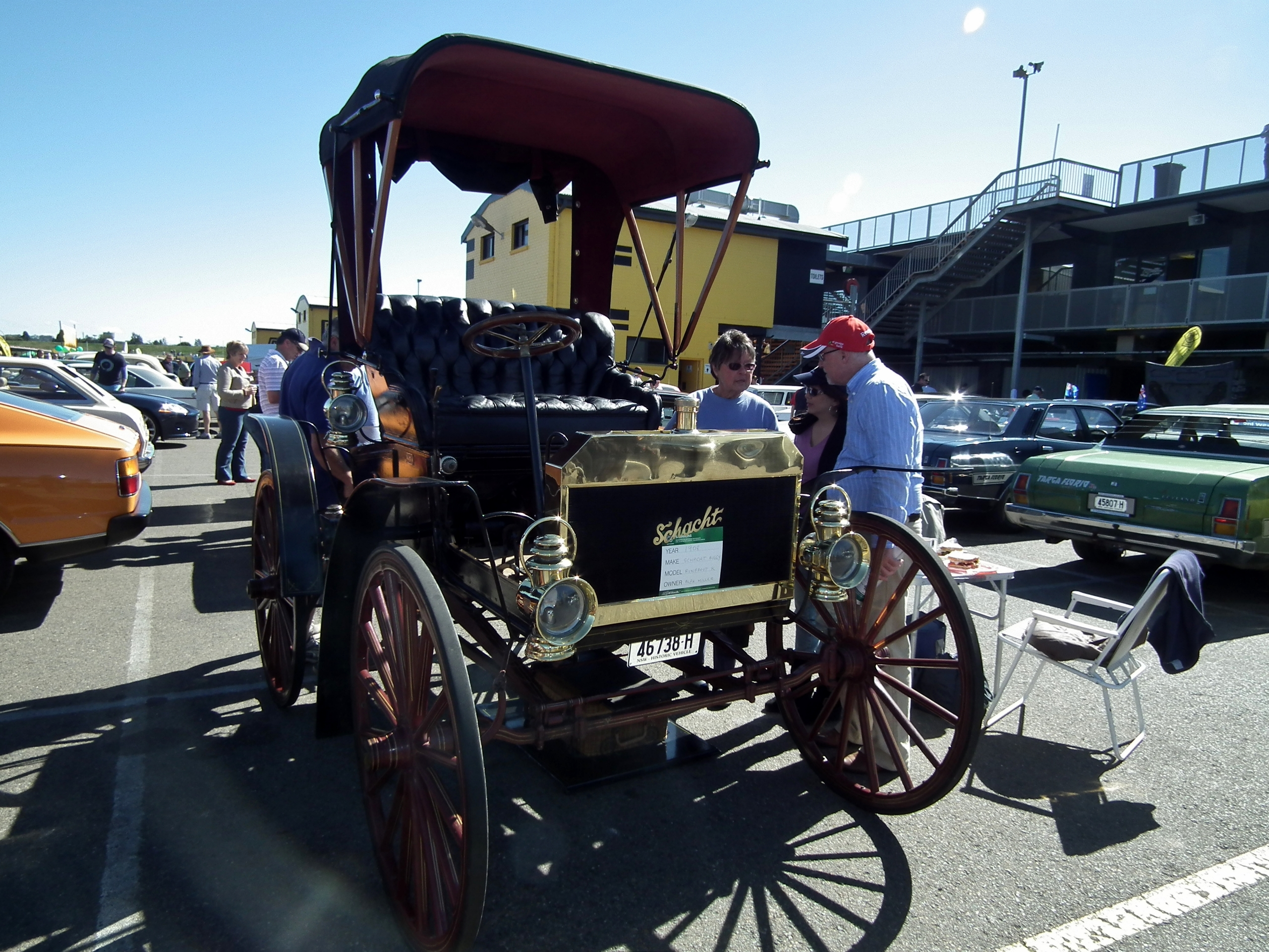 1908 Schacht Model K runabout. Taken at the 2013 Shannon's Eastern Creek Classic display day, held at Sydney Motorsport Park.